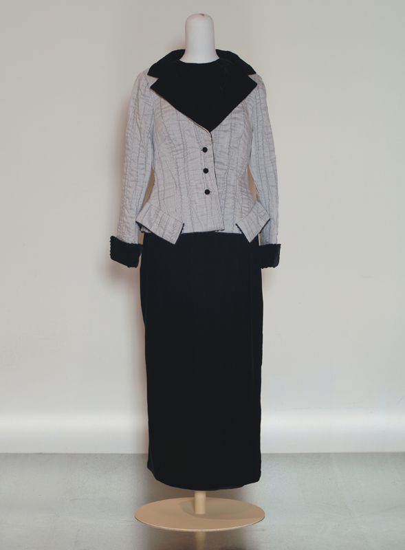 Outfit by Gianfranco Ferre